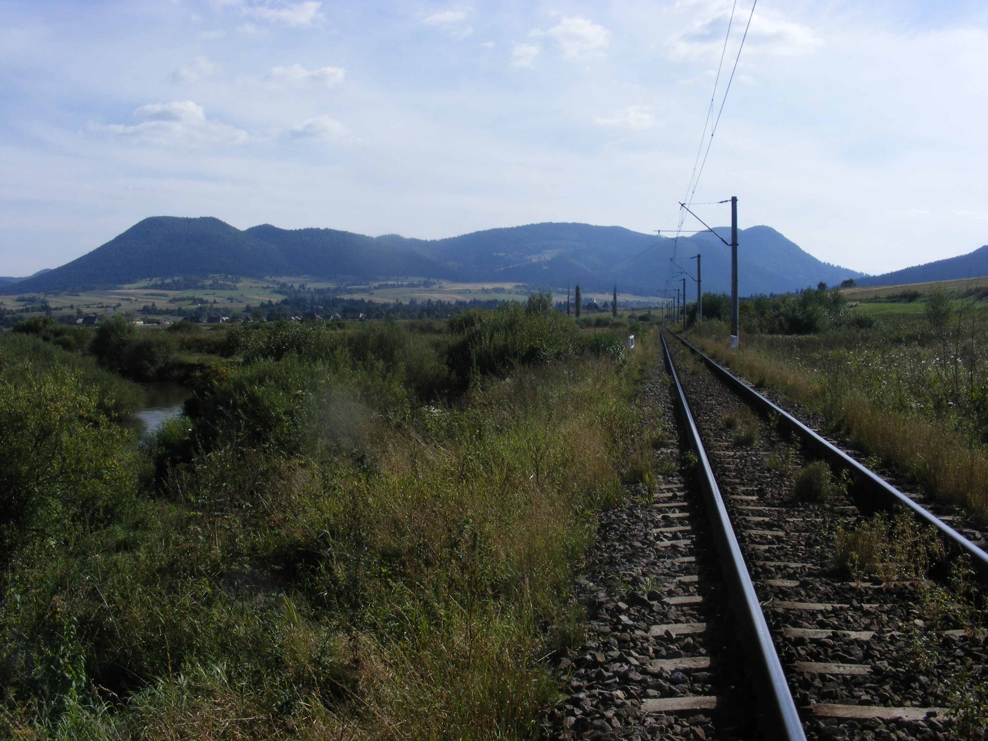 The view of the Csomád mountains in Romania, Harghita County.